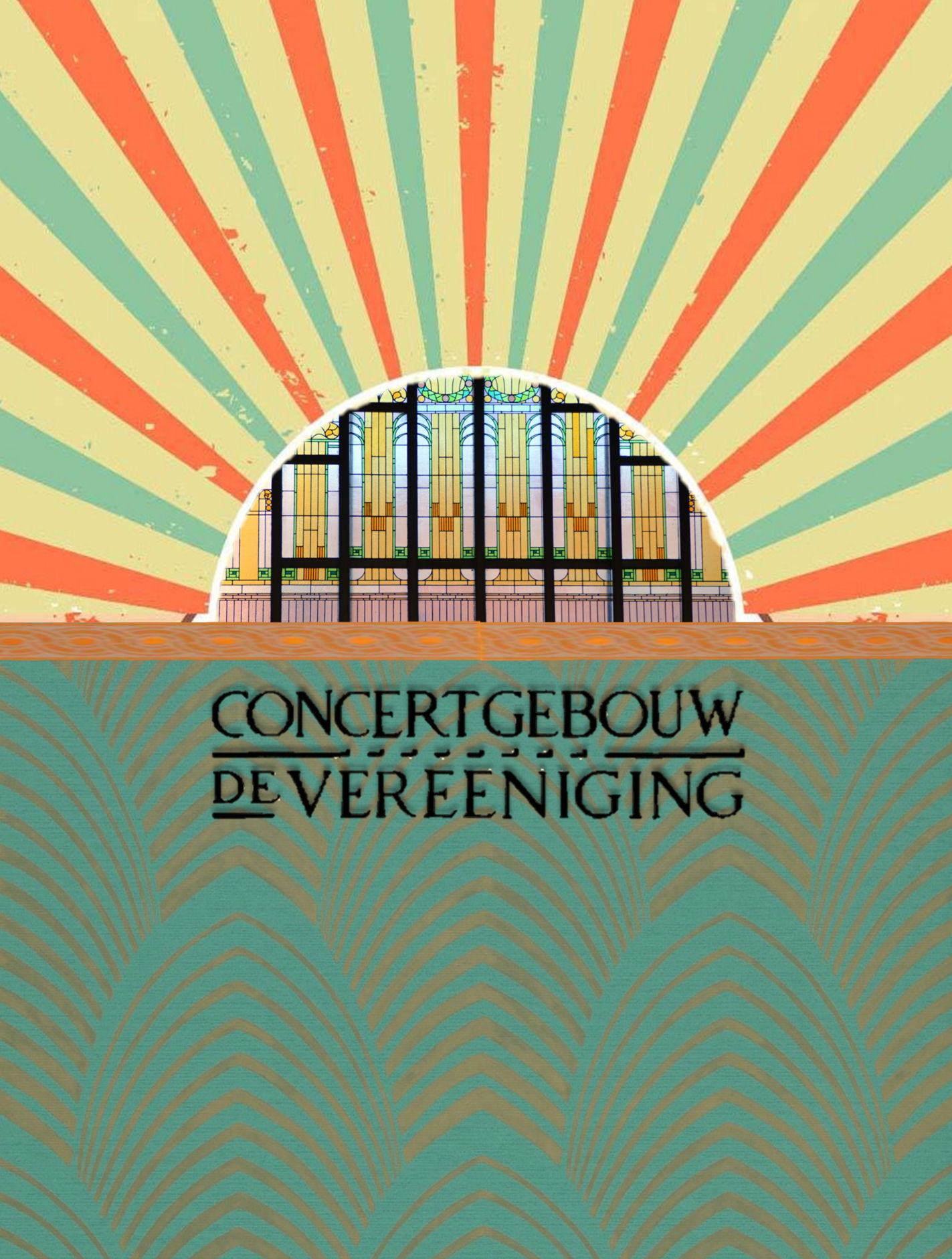 Concert building de Vereeniging Nijmegen Art Deco Art Nouveau 2018 Oscar Leeuw Roger Veringmeier poster glas en lood